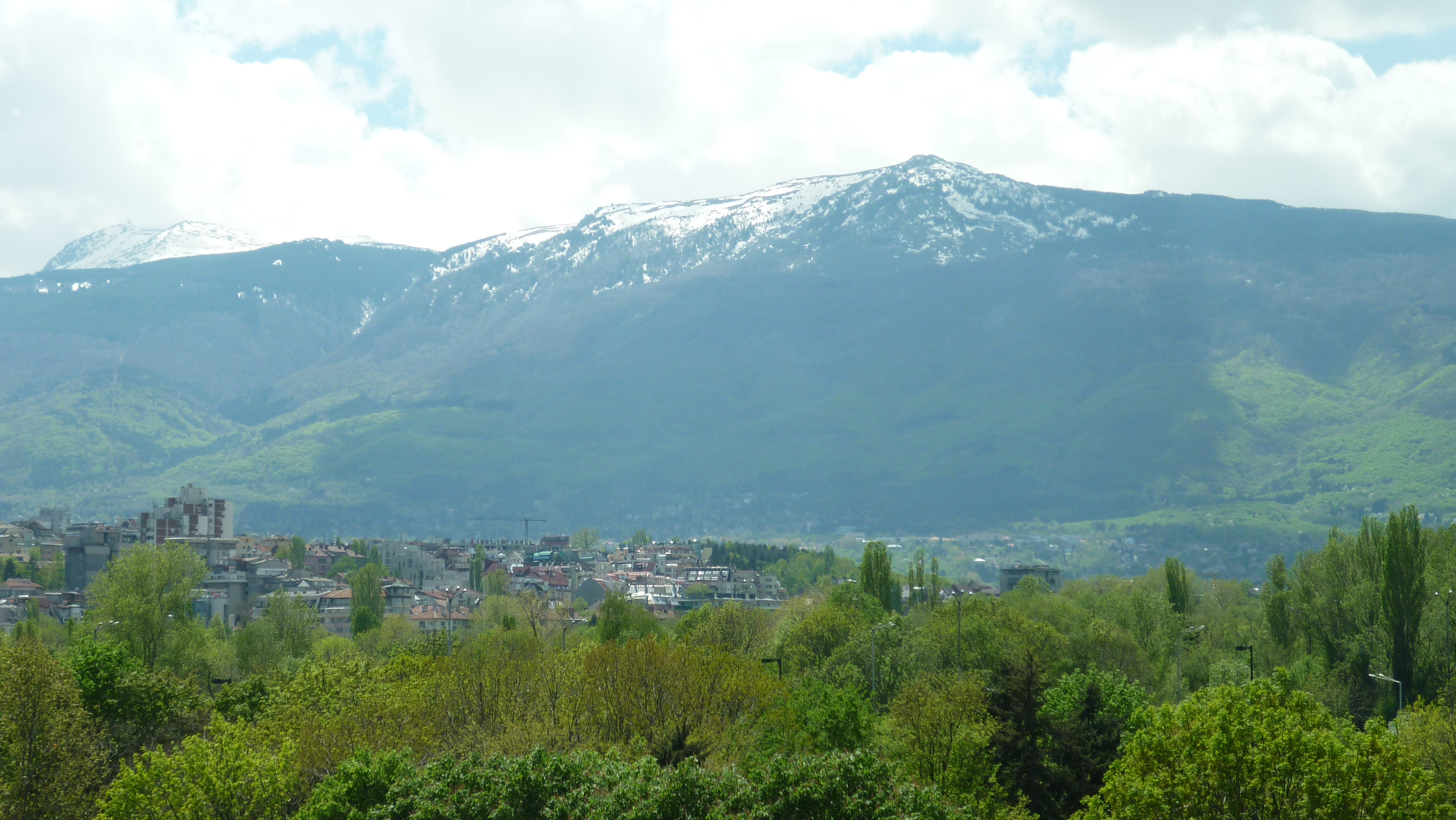 Photo of Vitosha mountain, seen from National Palace of Culture, Sofia